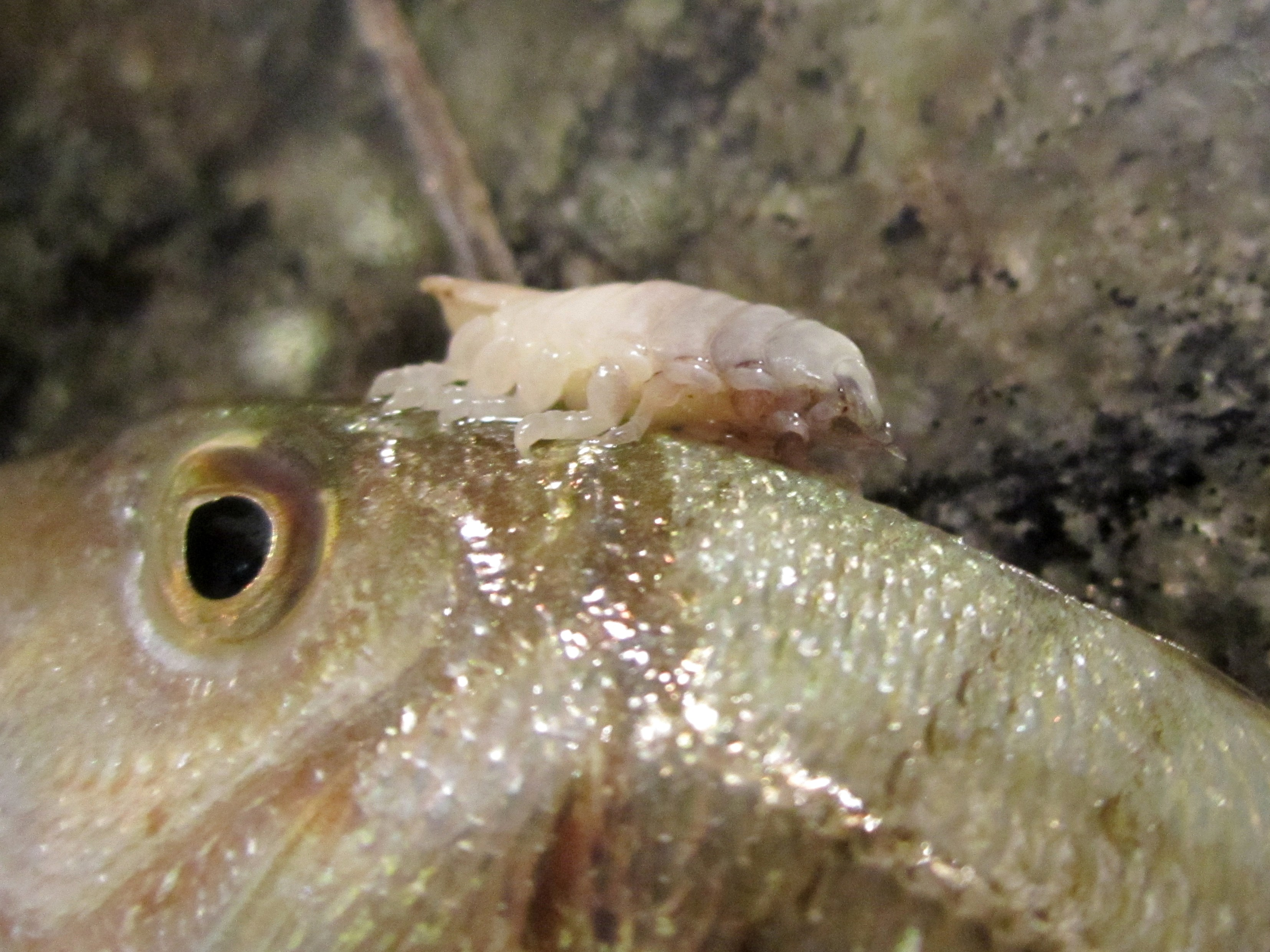 Cymothoa exigua, or the tongue-eating louse, is a parasitic crustacean of the family Cymothoidae. The parasite enters fish (here on the back of a Sand steenbras, Lithognathus mormyrus) through the gills and then attaches itself to the fish's tongue.